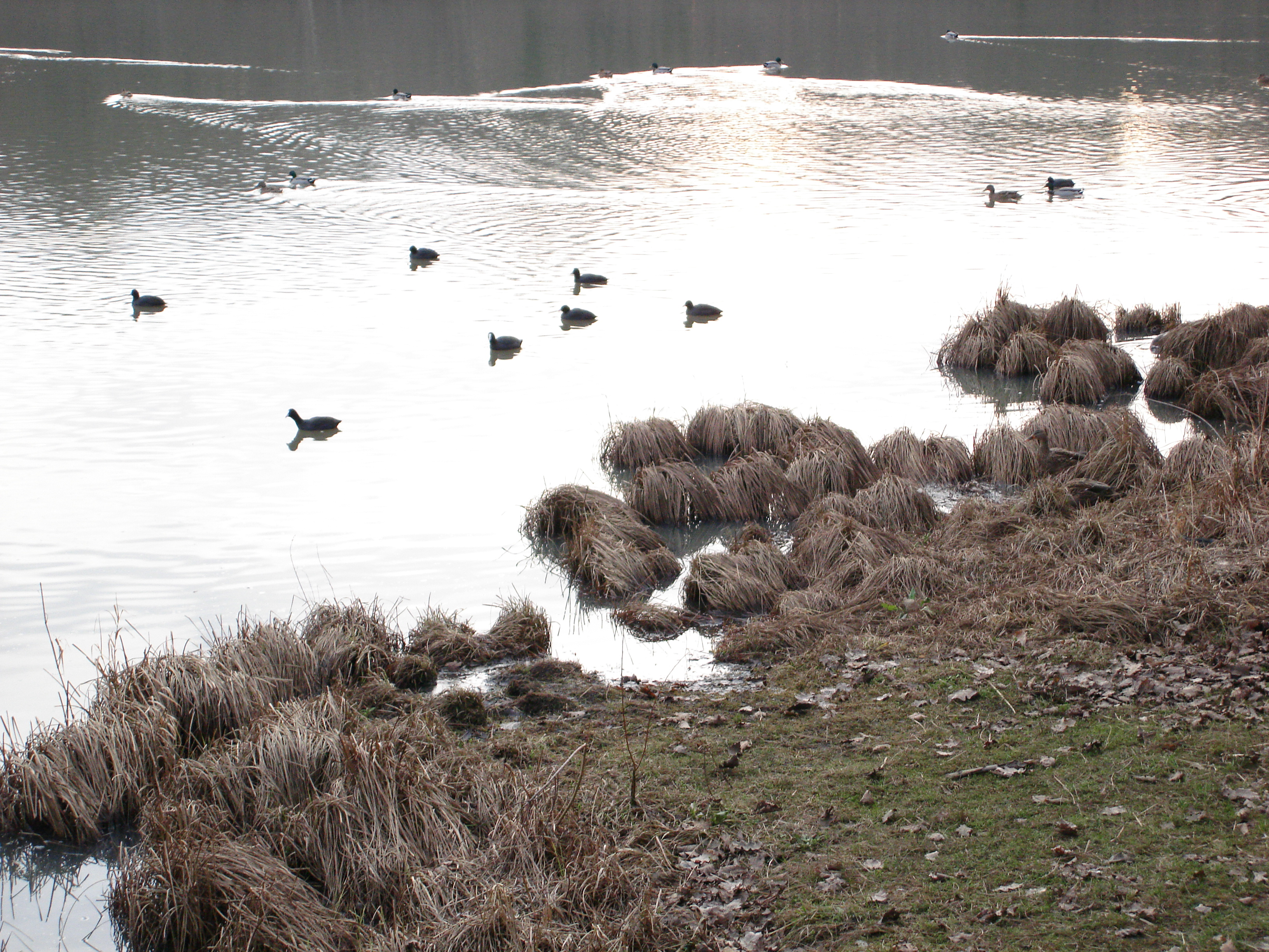 Étang de la Tour (Tower pond) in Vieille-Église-en-Yvelines, France in January 2012.